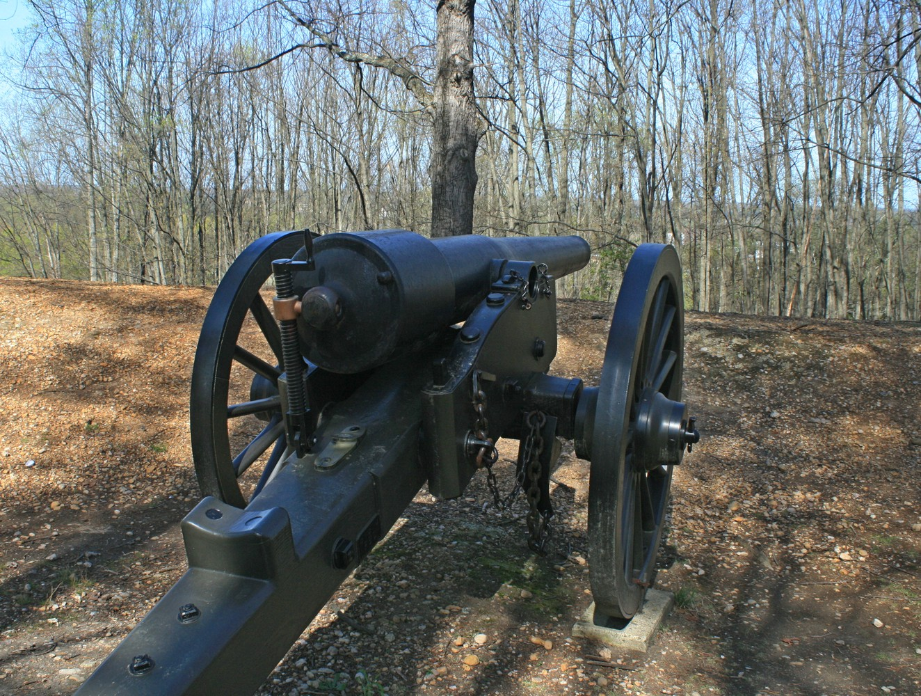 Fredericksburg, Lee Hill, CSA canon